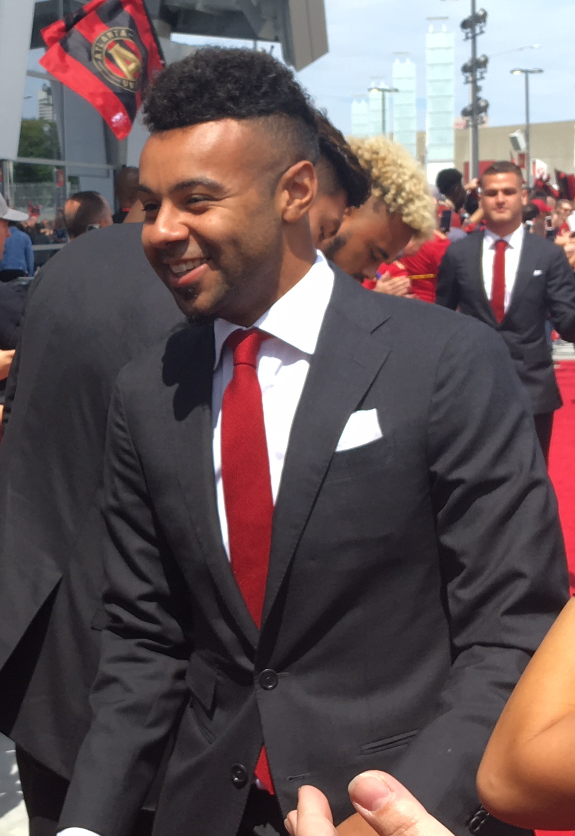 Andrew Wheeler-Omiunu after signing the Golden Spike for Atlanta United on September 10, 2017